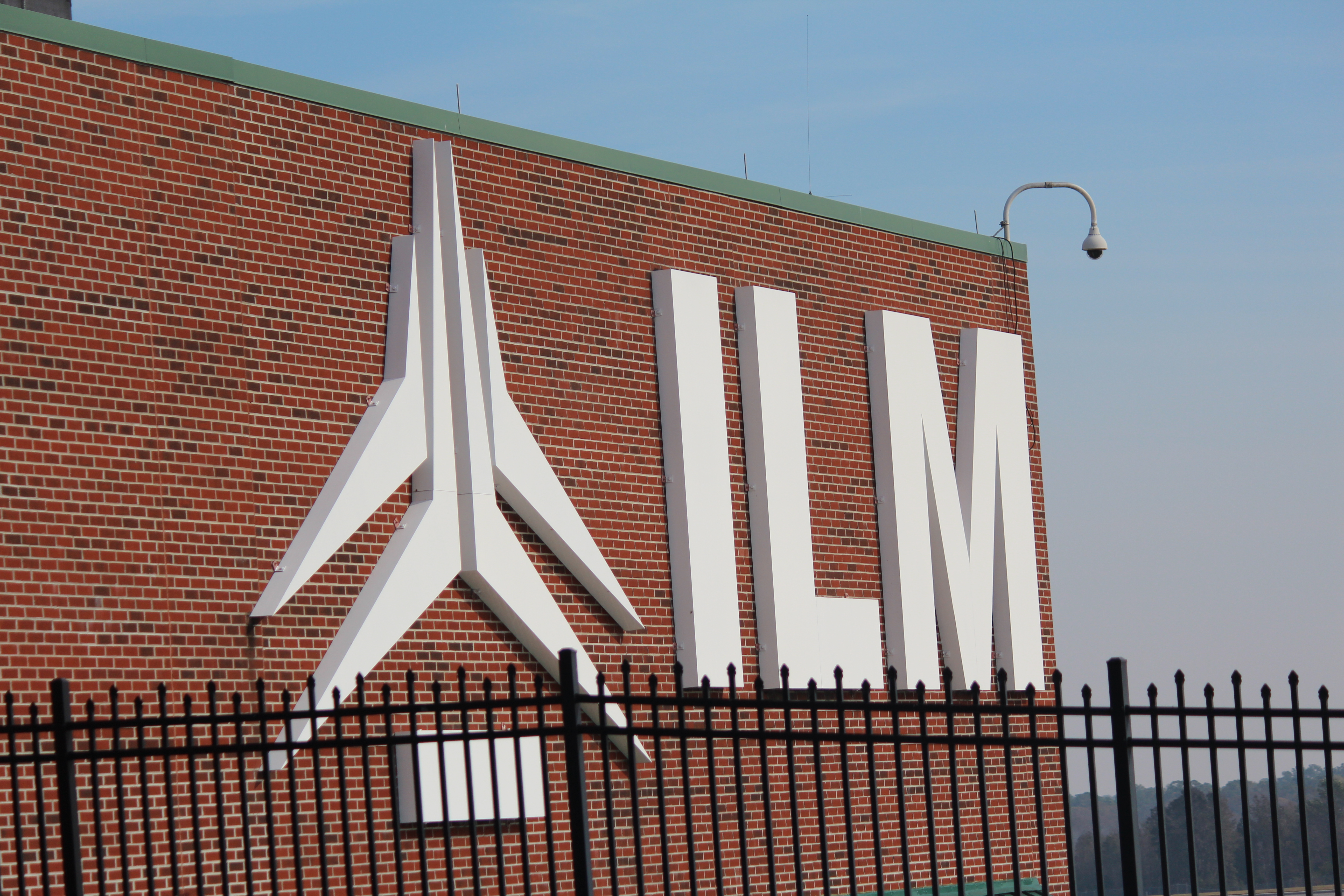 Logo for Wilmington International Airport (ILM) on the side of the main terminal in Wilmington, North Carolina.